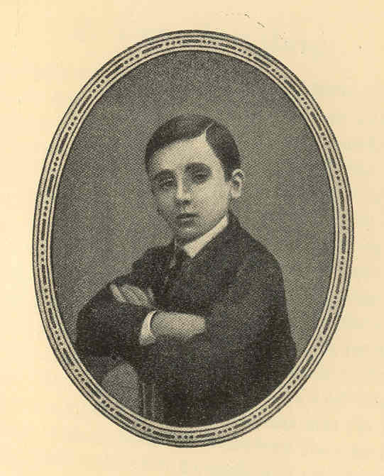 Copyright expired photo of Giacomo Della Chiesa in 1866